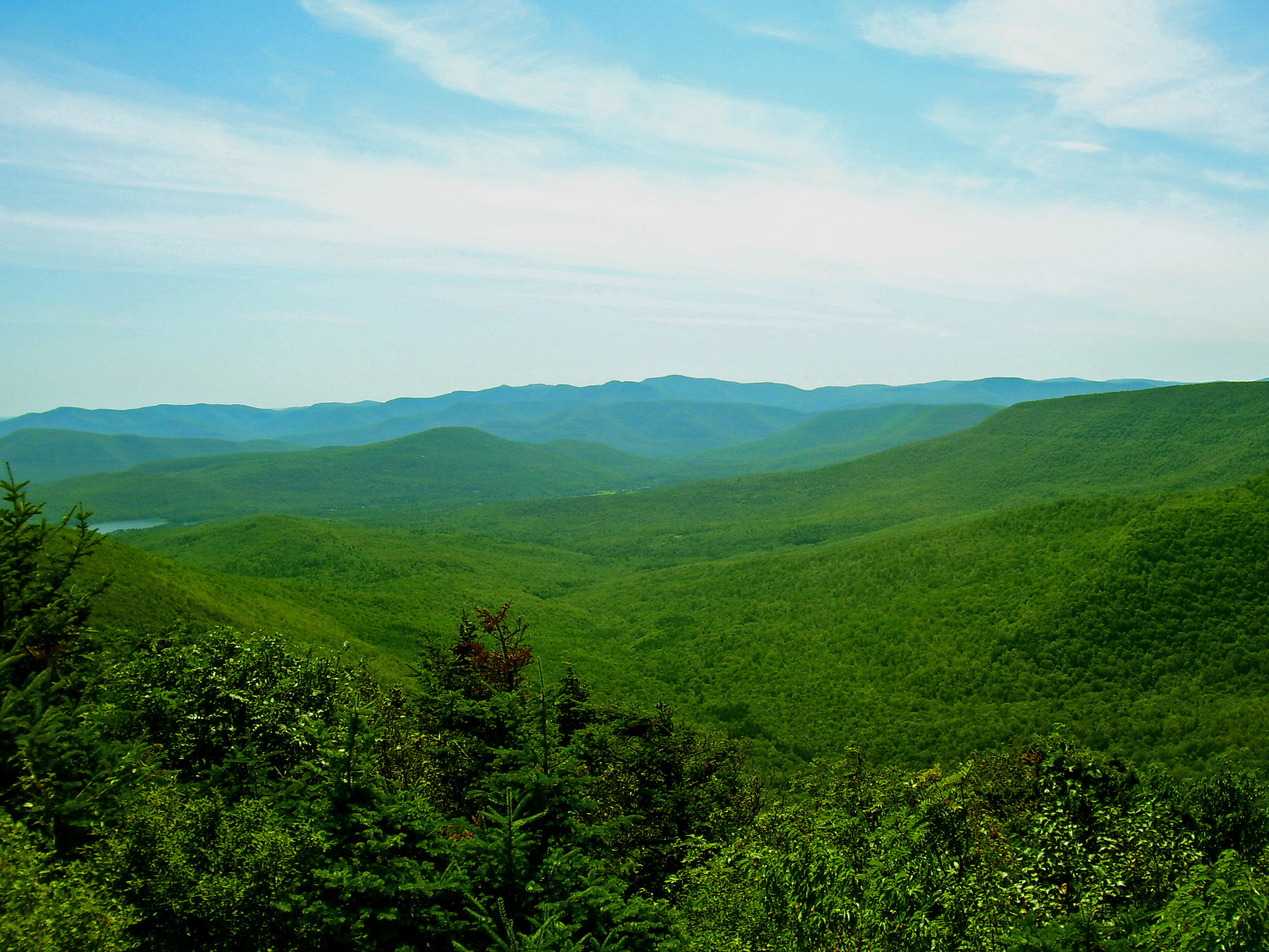 Photographed by Daniel Case 2006-08-12